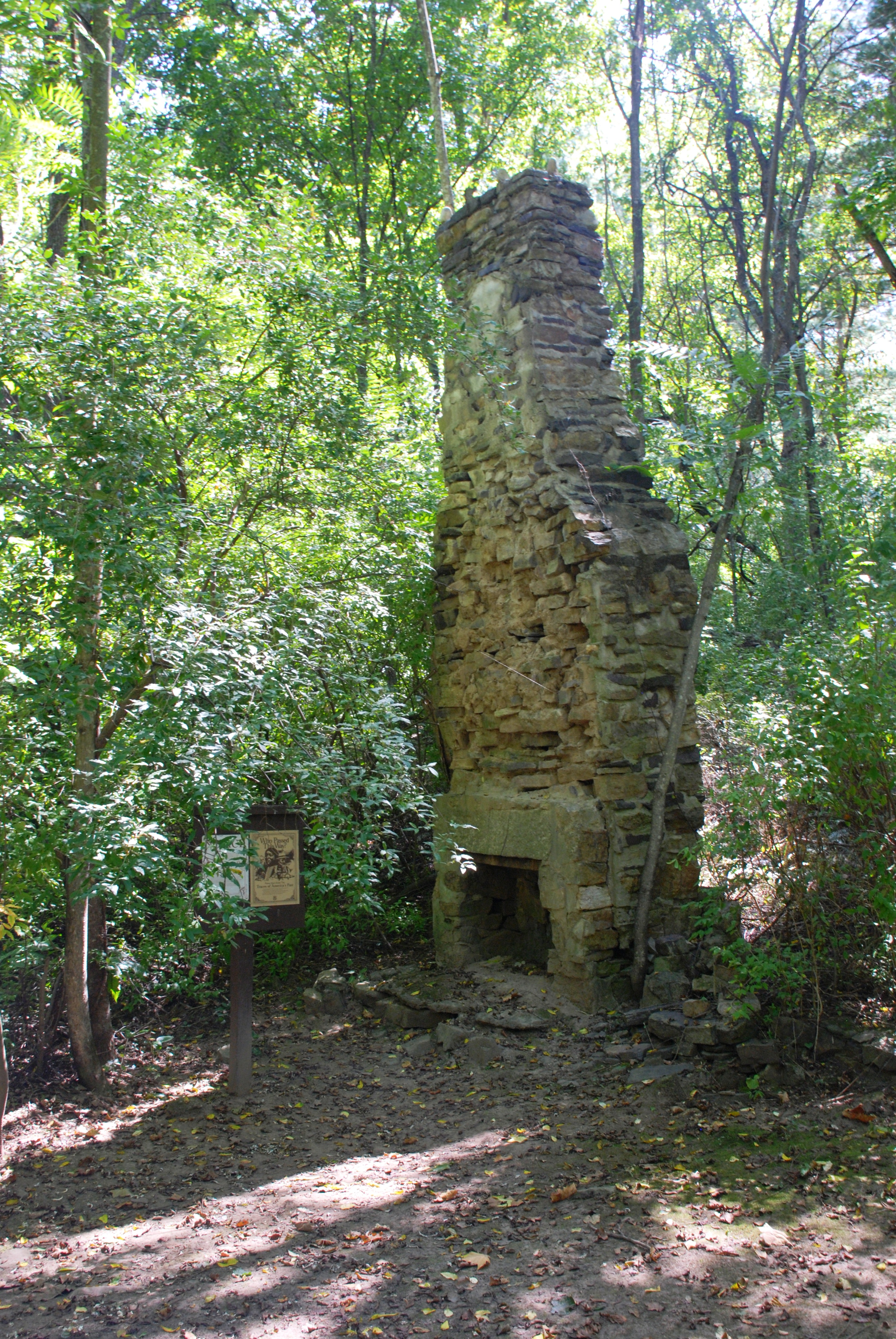 All that is left of the Post Office and the town of Katterman in Smoke Hole Canyon.